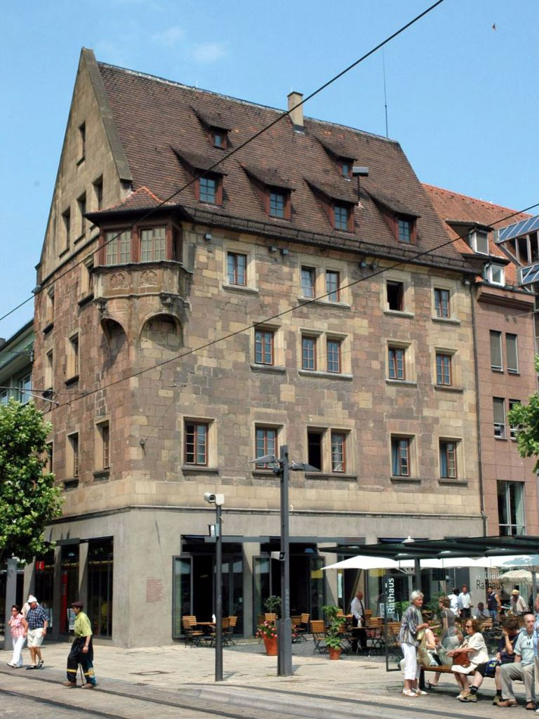 "Käthchenhaus" of Heilbronn